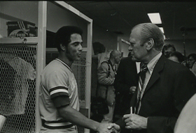 The photo contact sheet, identified as B0656 by the White House Photographic Office (WHPO), is housed at the Gerald R. Ford Presidential Library, a branch of the National Archives and Records Administration (NARA). This file is a 200 dpi photo contact sheet having images from roll of film B0656 of the August 9, 1974 - January 20, 1977 Gerald R. Ford White House Photographic Office Series A0001-A9999 and B0001-B2886 photographs. The date on the photo contact sheet is the date the roll of film was processed, not necessarily the date the photographs were taken. See table below for additional details.